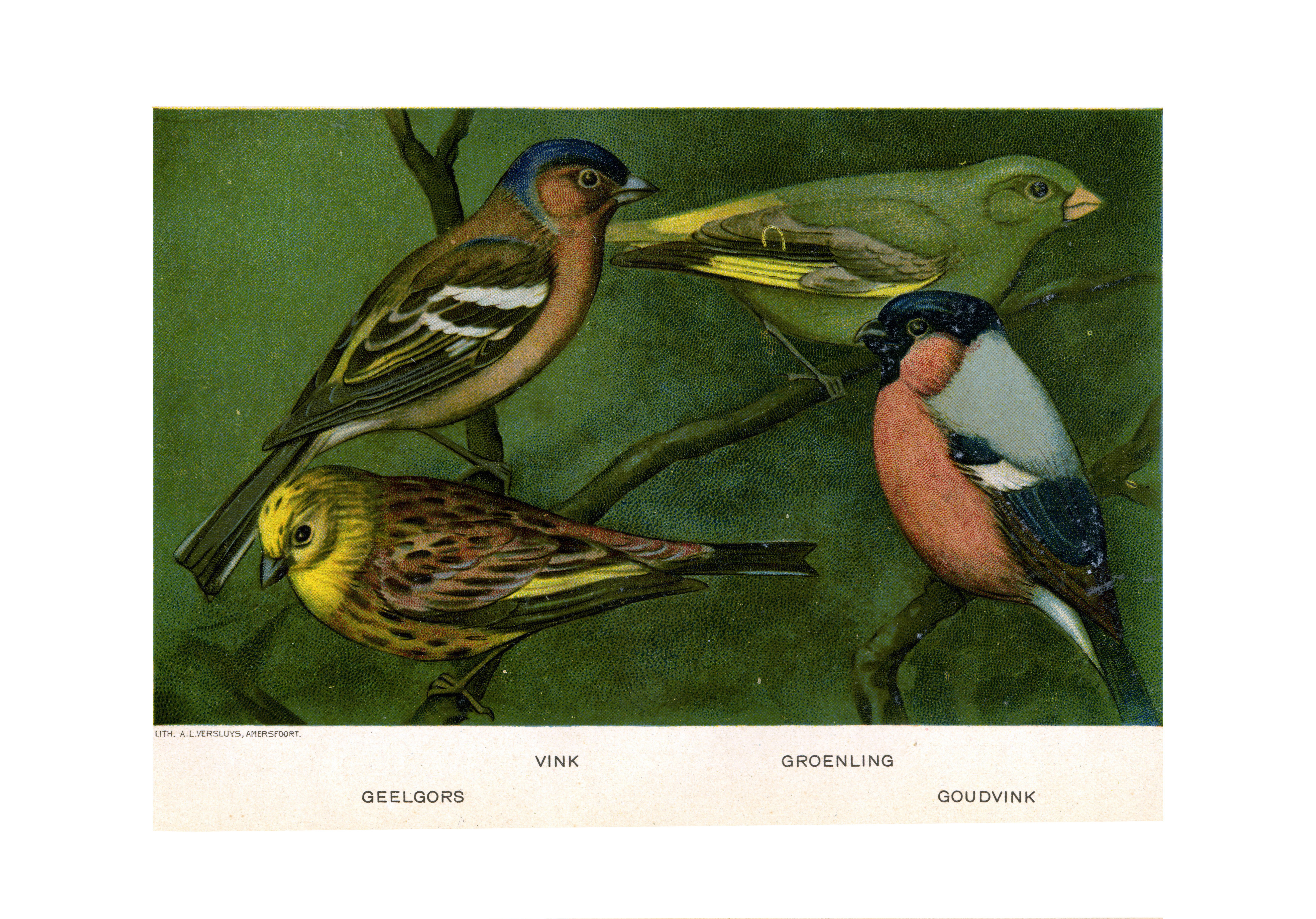 Yellowhammer, Common chaffinch, European greenfinch, Eurasian bullfinch. Order Passeriformes, Passerine